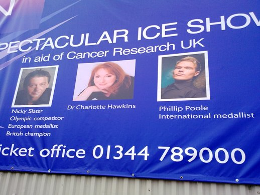 Detail of 'Inspiration on Ice' banner showing Phillip Poole